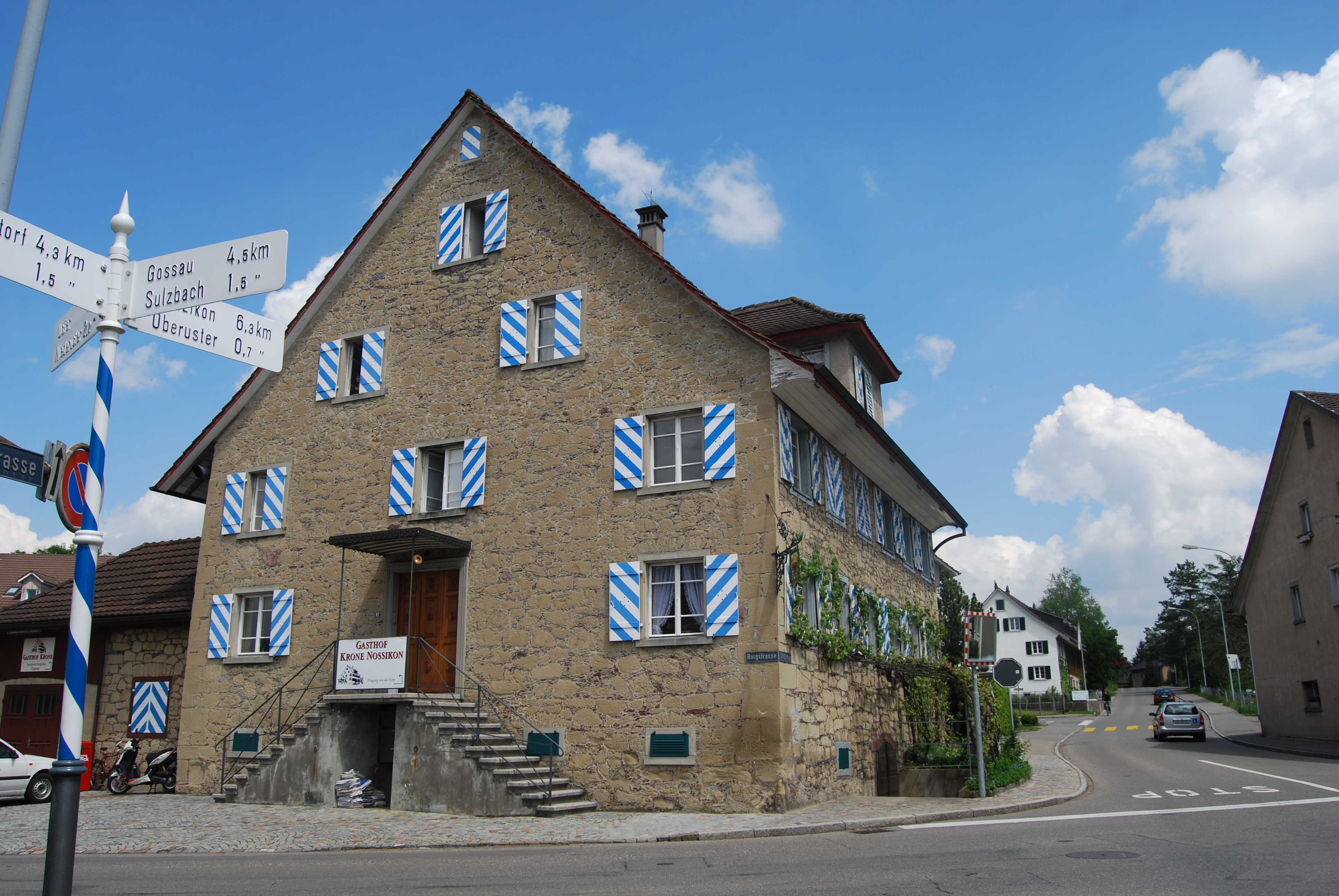 Restaurant Krone Nossikon, city of Uster, canton of Zürich, Switzerland